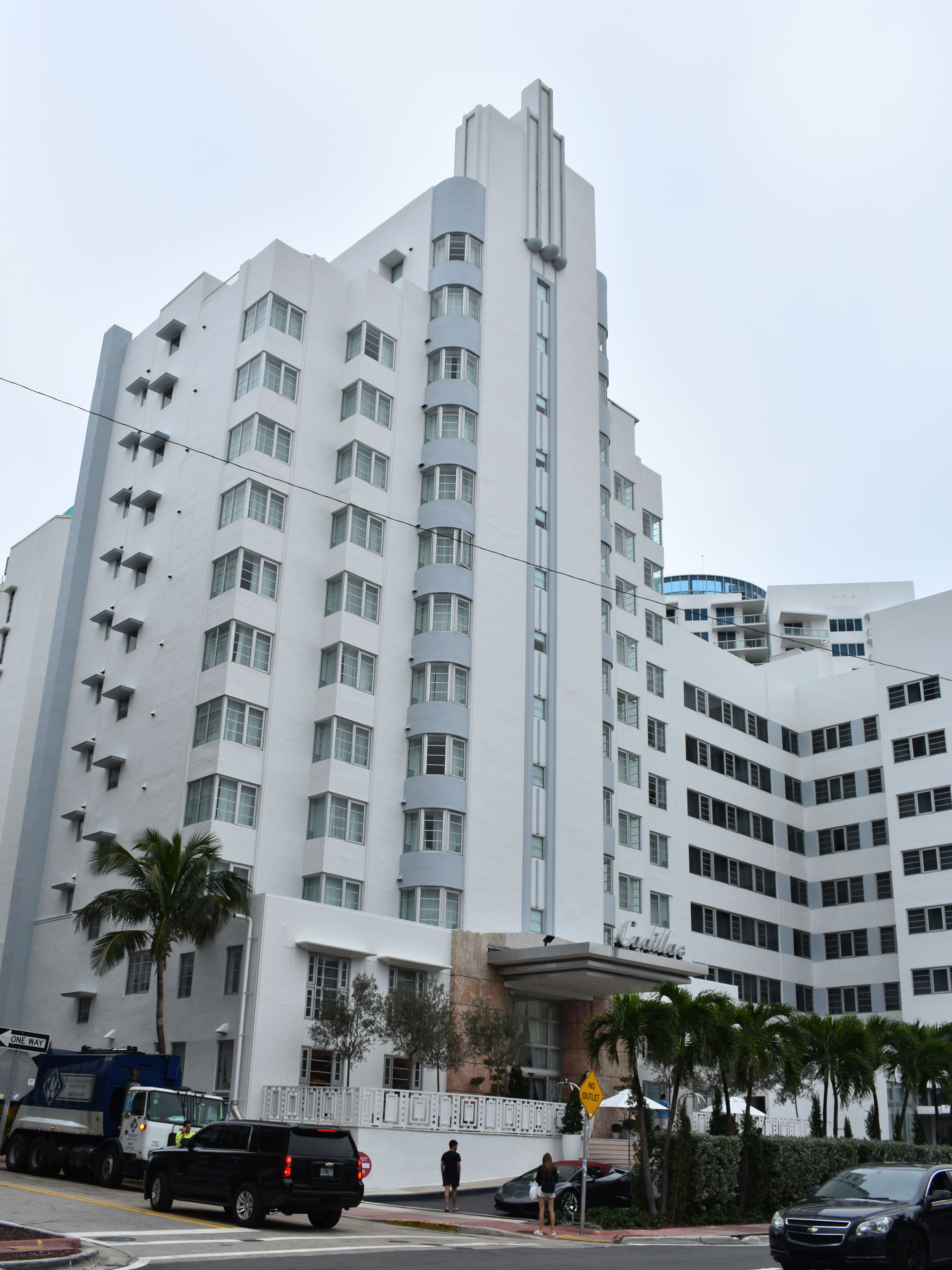 The Cadillac Hotel (1940) in Miami Beach is listed on the National Register of Historic Places and is part of the Collins Waterfront Architectural District.